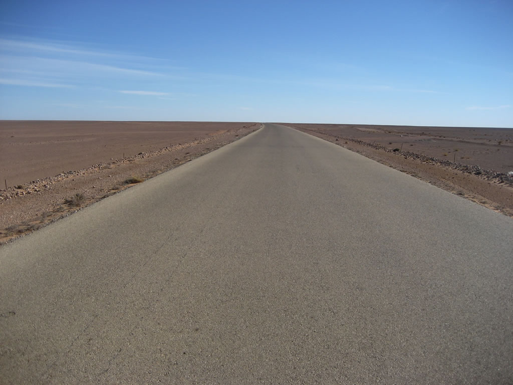 The open road east of Derj on the way from Ghadames to Sebha.